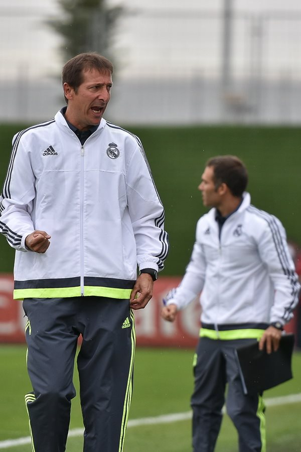 Luis Miguel Ramis as a coach of Real Madrid U19 during UEFA Youth League match against Shakhtar Donetsk on 15 September 2015